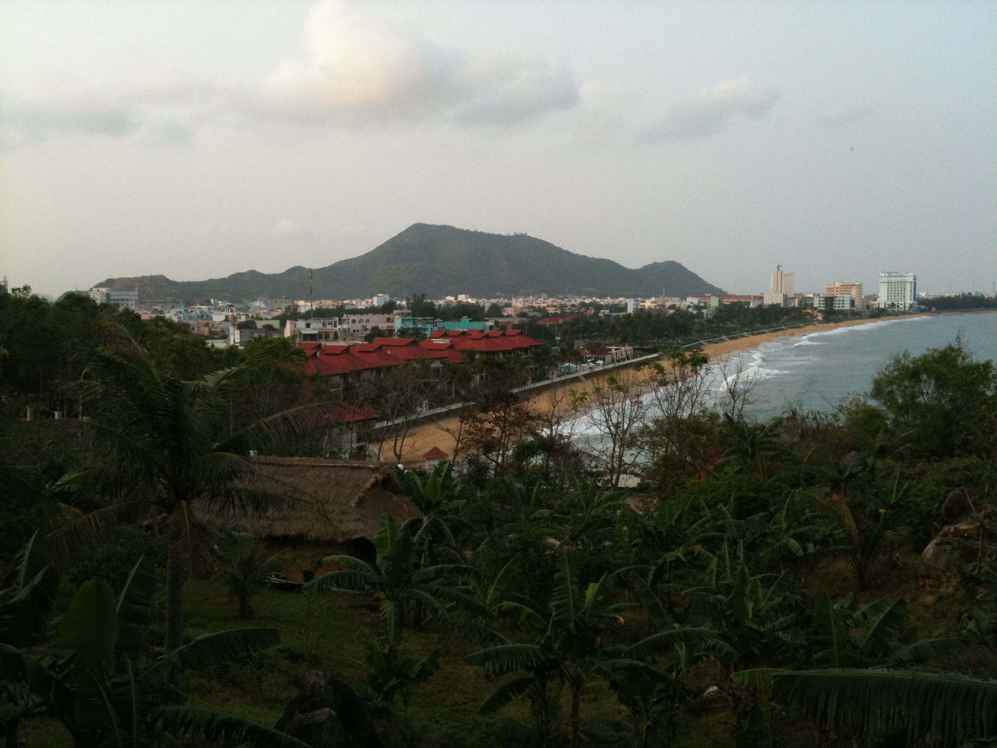 View of Quy Nhon from Ghenh Rang Recreation Area.